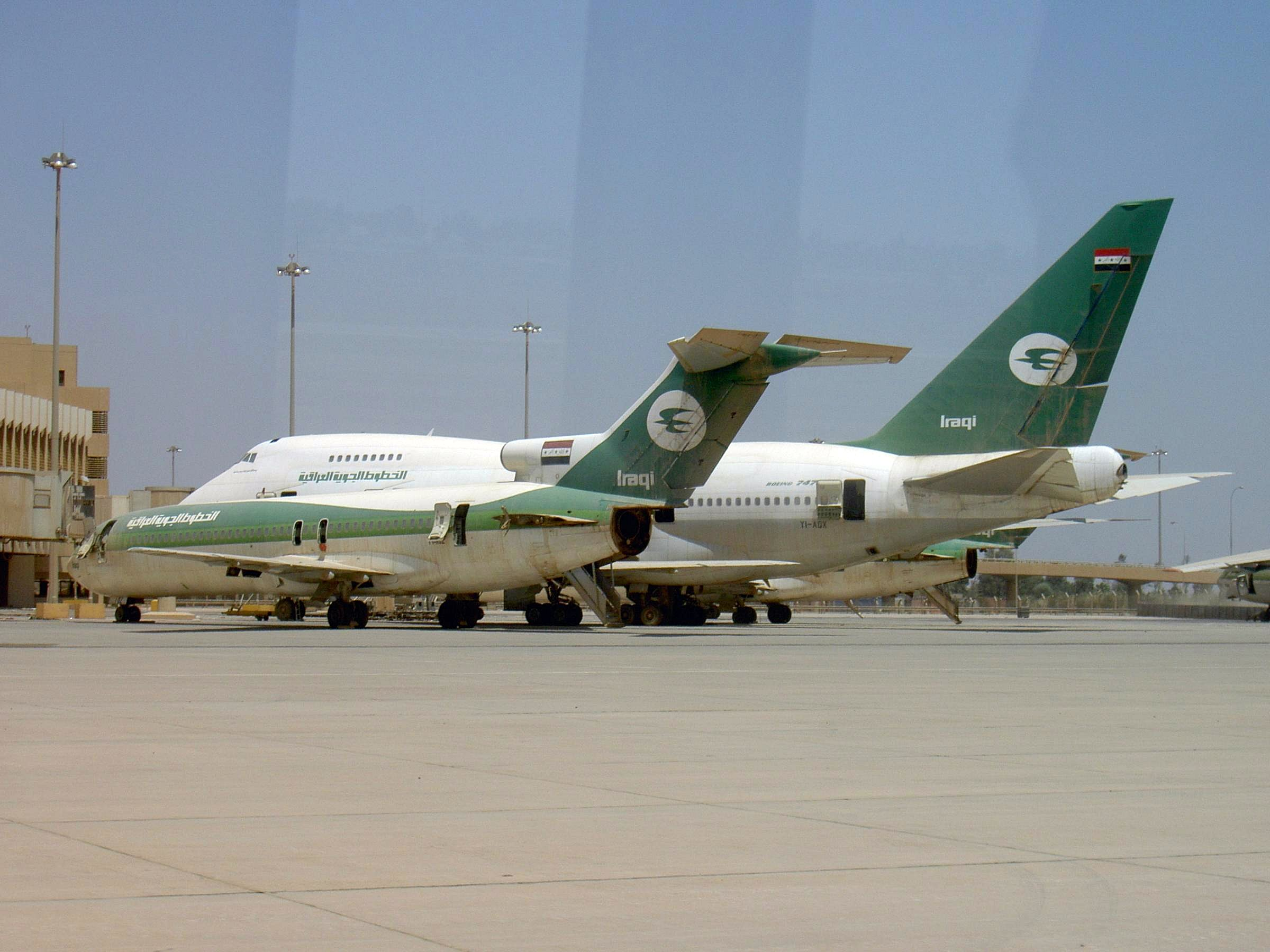 Iraq Airways Boeing 727-200, 747-SP, Baghdad International Airport(BIAP). Iraqi Airways, also known as Air Iraq, is the national carrier airline of Iraq, based in Baghdad and it is also the oldest airline of the Middle East. It operates domestic and regional services. Its main base is Baghdad International Airport. Iraqi Airways is a member of the Arab Air Carriers Organization. The Iraqi Airways fleet consists of the following aircraft (as of November 2007): 1 A300B4-2C (operated for Govt.) 2 Boeing 727-200 (operated by Teebah Airlines) 2 Boeing 737-200 (1 operated by Teebah/stored at Amman, 1 operated by Dolphin Air) Iraqi Airways has 5 Boeing 737-400 aircraft on order. The Boeing 737-400s will be acquired on lease. Former fleet: Iraqi Airways fleet was composed of the following aircraft types from the 1970s until 2003, some of these aircraft were stored in Amman, Beirut and Tehran during the 1990 Gulf war, air worthy ones operated a few Hajj flights during the 1990s: Antonov An-24 Boeing 707-320 Boeing 727-200 Boeing 737-200 Boeing 747-200 Boeing 747 SP (passenger and government) Ilyushin IL-76 cargo freighter Four Airbus A310-300 were also ordered in the late 1980s but war related sanctions prevented Iraq from getting them and they were never built. Post 2003 they also operated a single Boeing 767-200 and a 757-200 for a short while.